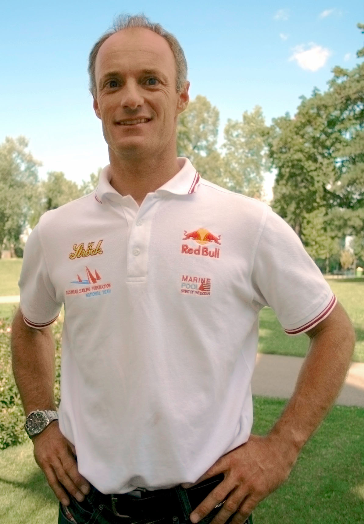 Sailor (Tornado class) Hans-Peter Steinacher at the presentation of the Austrian team for the 2008 Summer Olympics in China (Strandbad Gänsehäufel, Vienna)